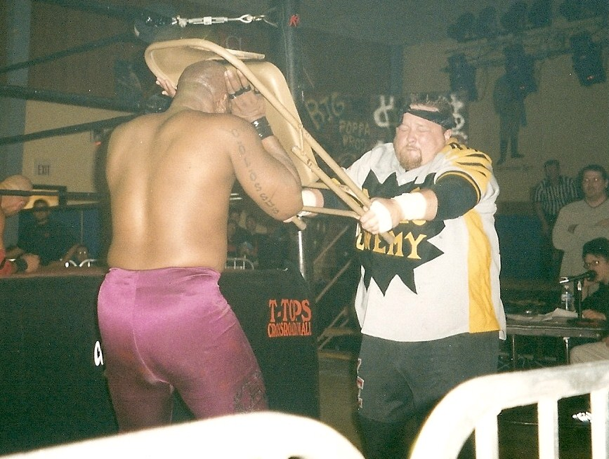 Johnny Grunge of the professional wrestling tag team The Public Enemy hitting his opponent over the head with a steel chair at an independent show in Omaha, Nebraska, USA on March 1, 2002.